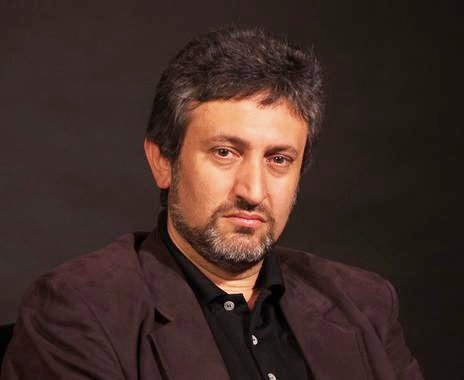 Garik Israelian